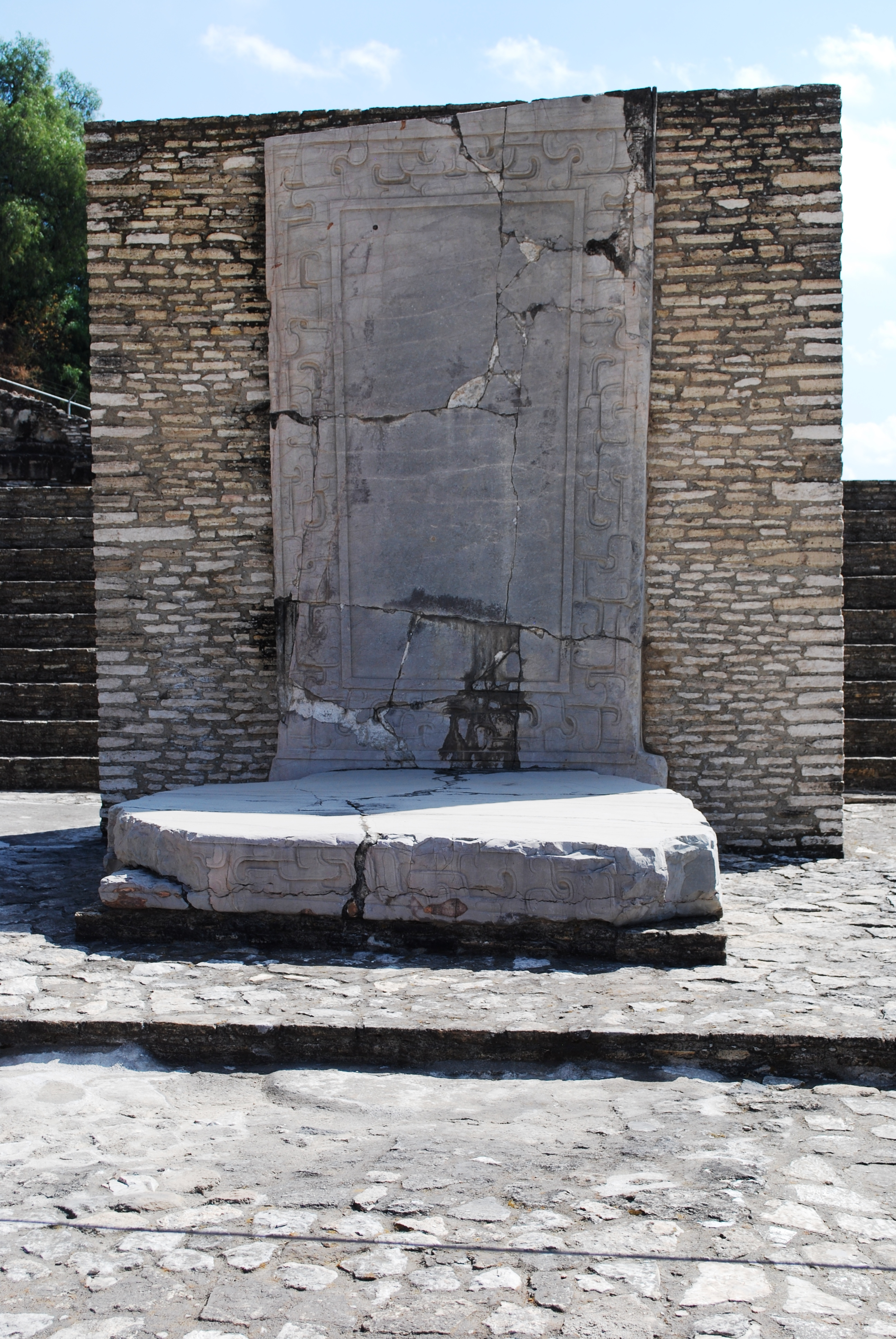 Altar one at the Patio of the Altars at the Great Pyramid of Cholula, Puebla, Mexico